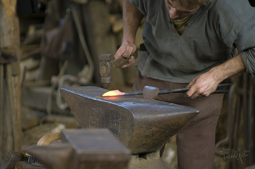 This is an anvil seen at the medieval construction site Guédelon in Treigny, France. The fortress castle is being built using the materials and techniques of the Middle Ages.